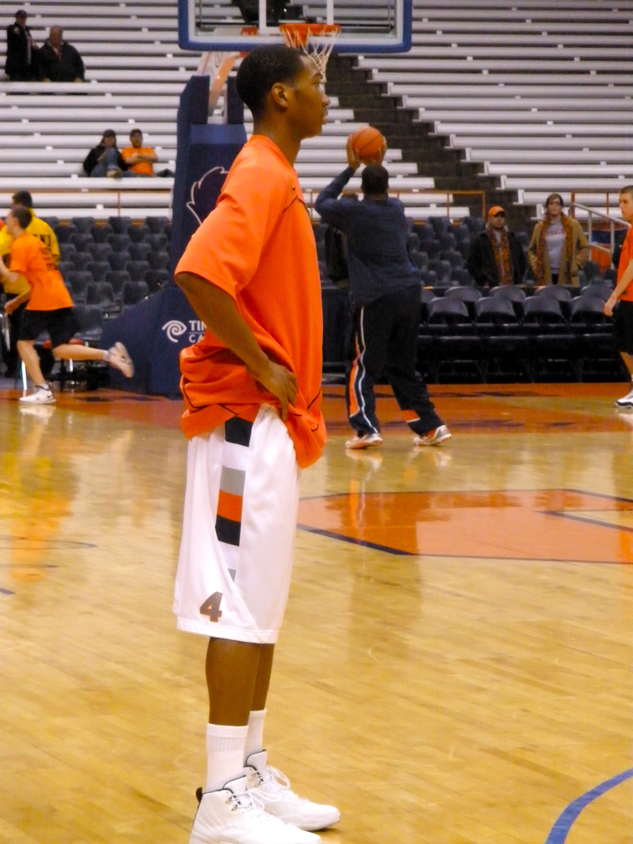 Wes Johnson during a game on 2009-12-22. Cropped from a larger image.